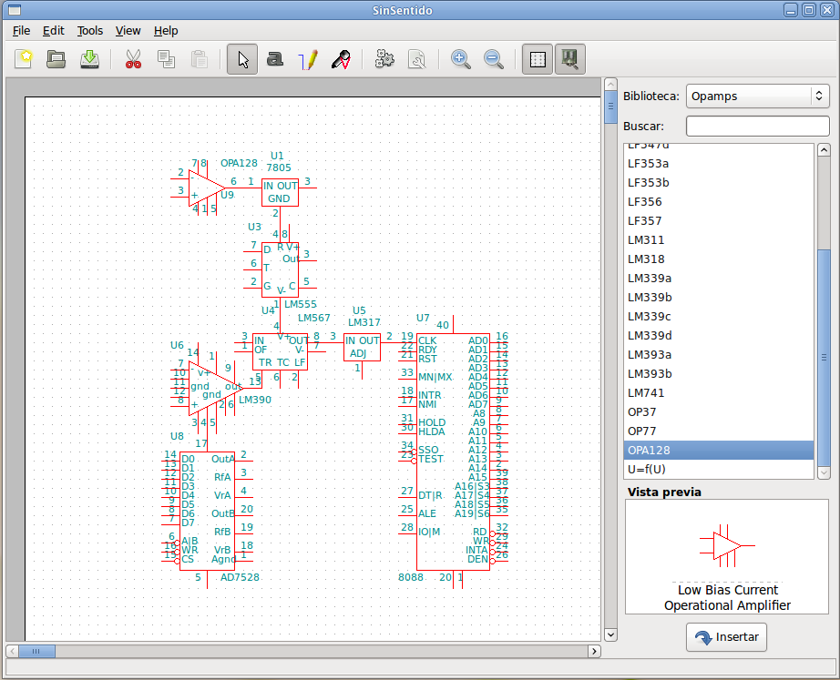 Screenshot showing Oregano (software) 0.69.0 running on GNU/Linux.